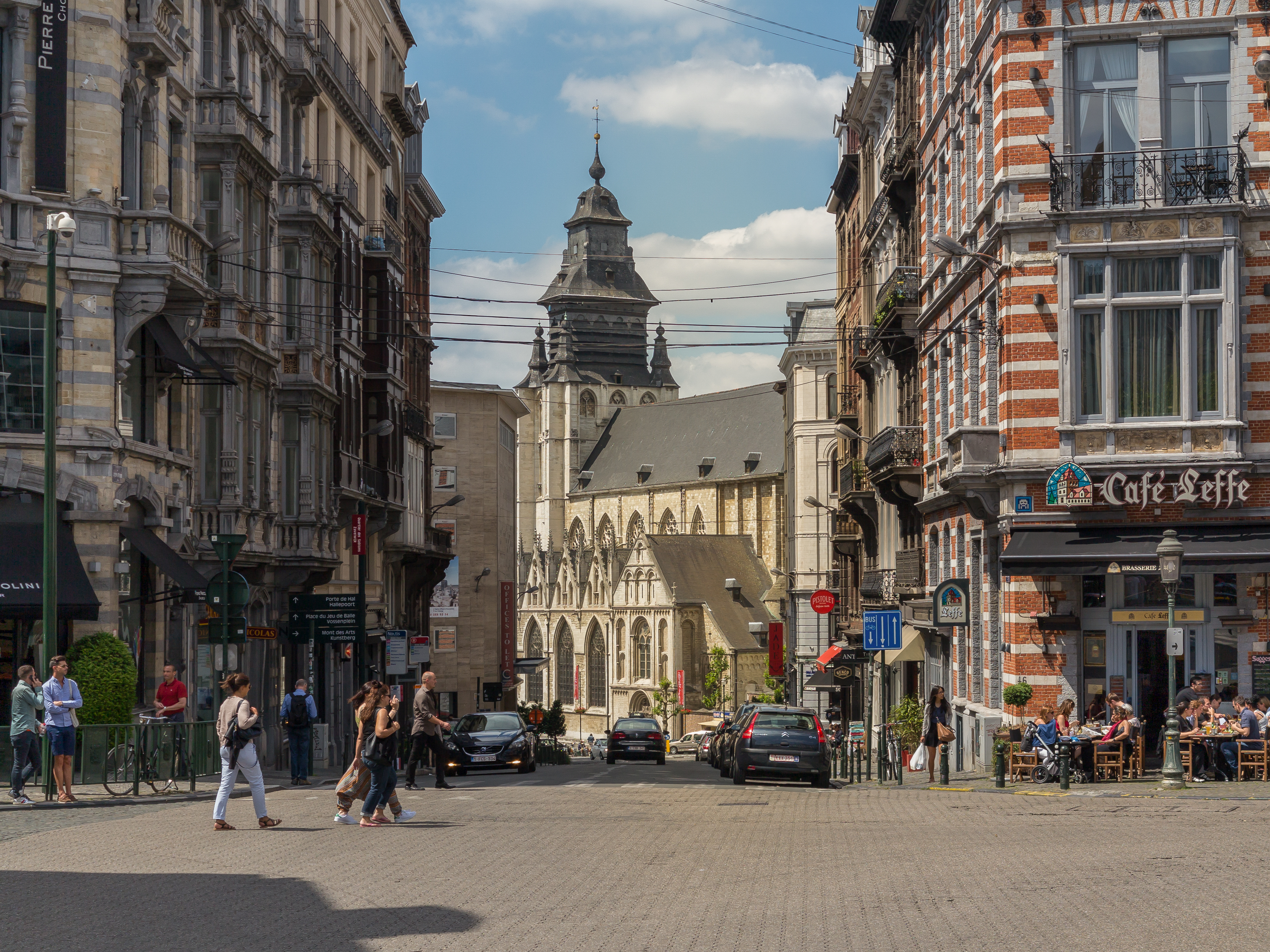 Brussels, stret view to Rue Joseph Stevens